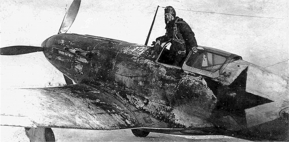 Mikoyan-Gurevich MiG-3 fighter aircraft painted in badly eroded winter distemper camouflage